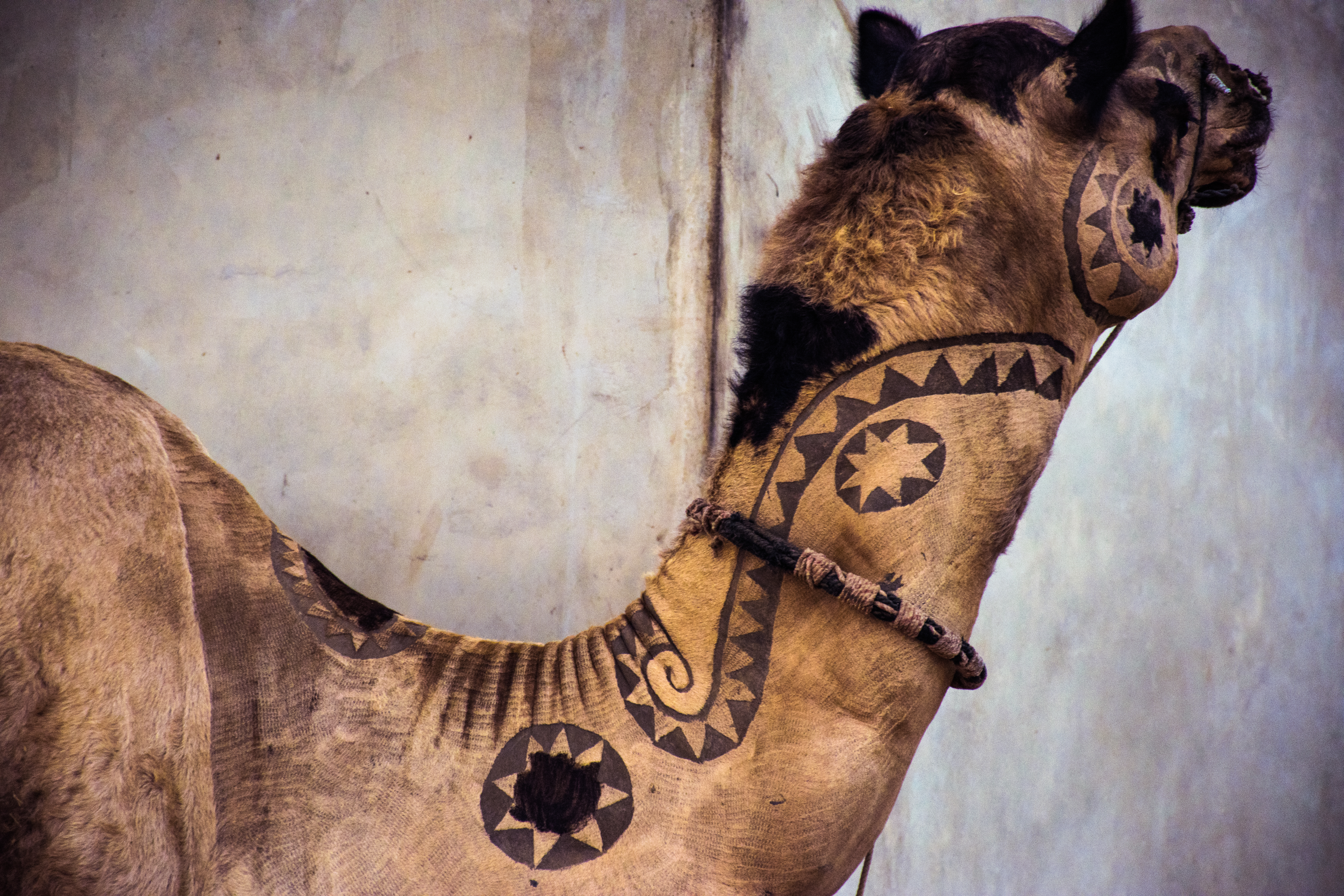 Picture was taken on the outskirts of Sariska Tiger Reserve.